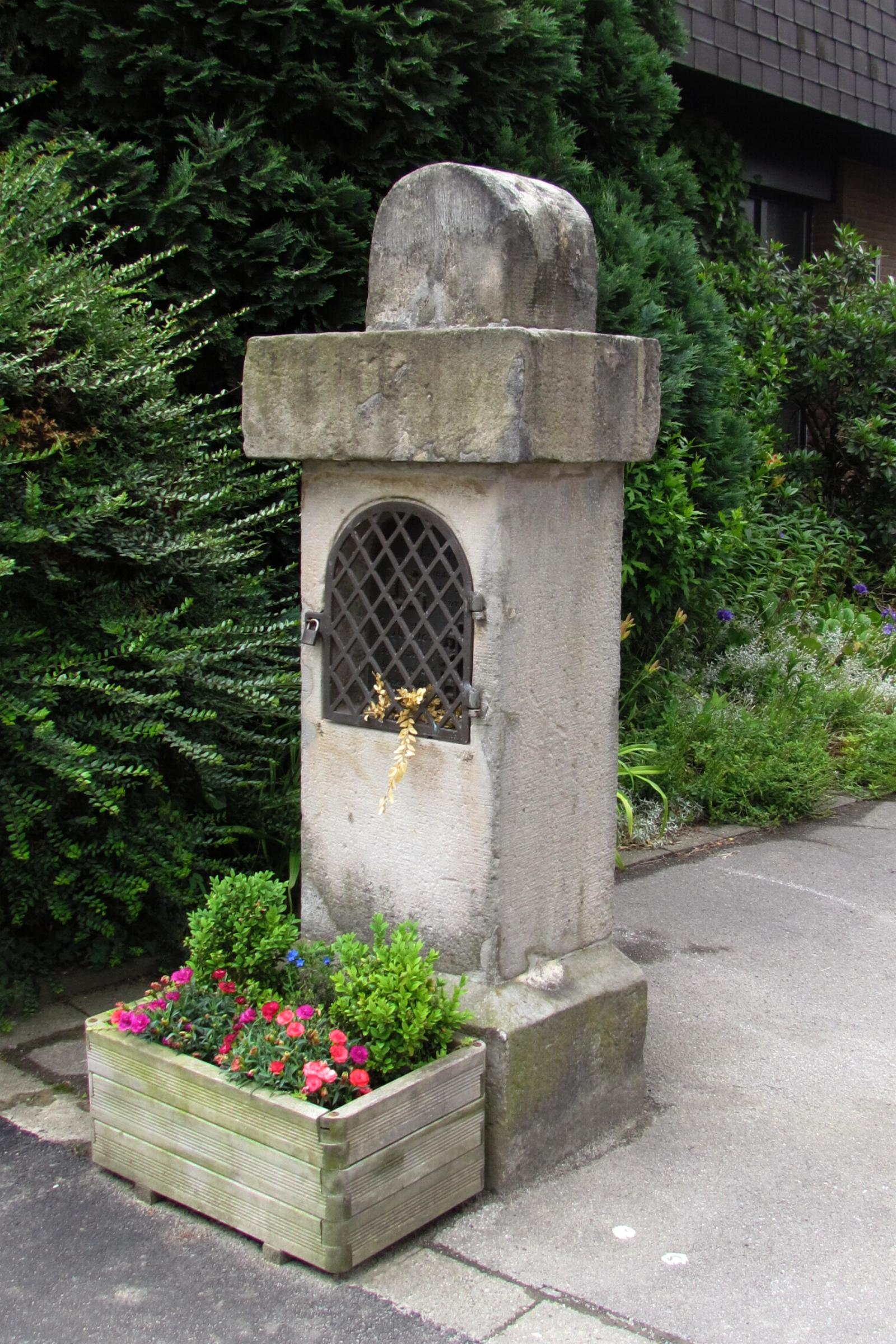 This is a photograph of an architectural monument.It is on the list of cultural monuments of Korschenbroich